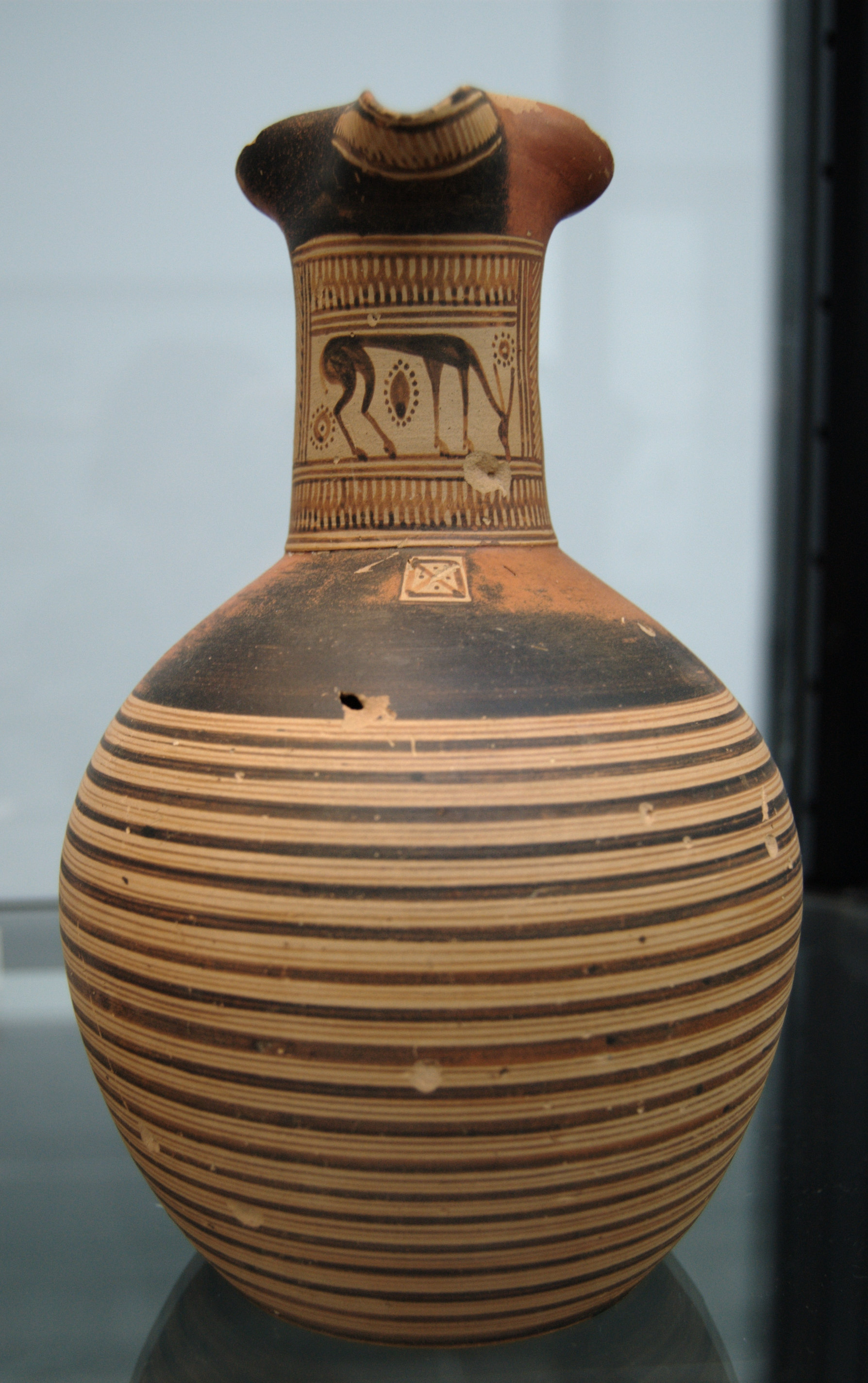 Oinochoe (wine jug). On the neck: grazing roe-deer, Dipylon Master style. Attica, ca. 750 BC.